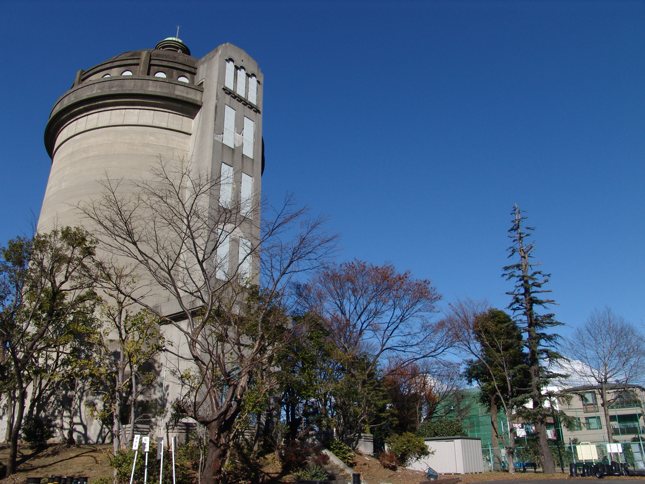 Oyaguchi Water Tower